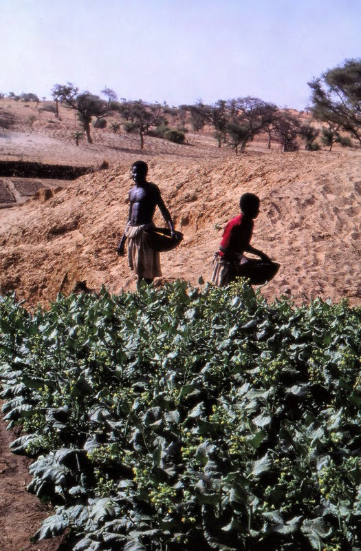 Tobacco cultivation in the dry season in the bed of the stream, Tireli, Mali 1980